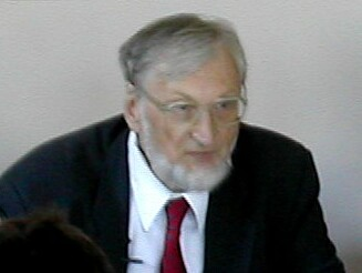 Professor Andrzej Walicki at the conference in Lund, Sweden